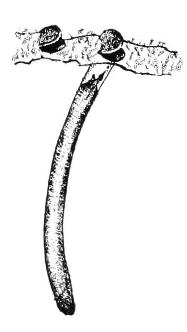 A single-door, un-branched, wafer-lid type nest of trap-door spiders.